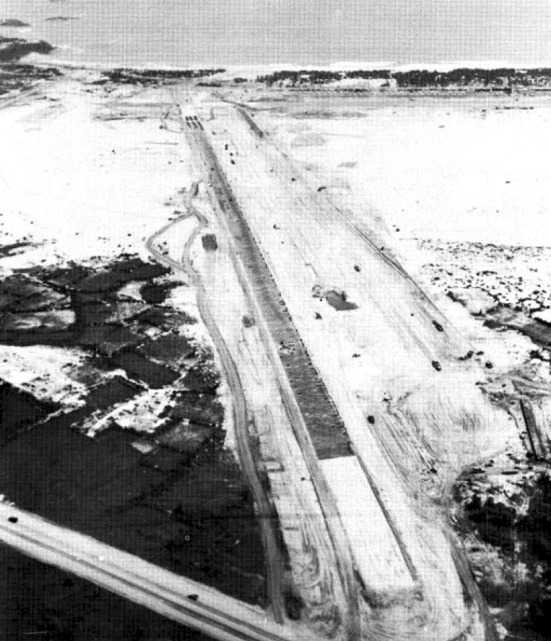 The U.S. Marine Corps airfield at Chu Lai, Vietnam, under construction circa 1965.